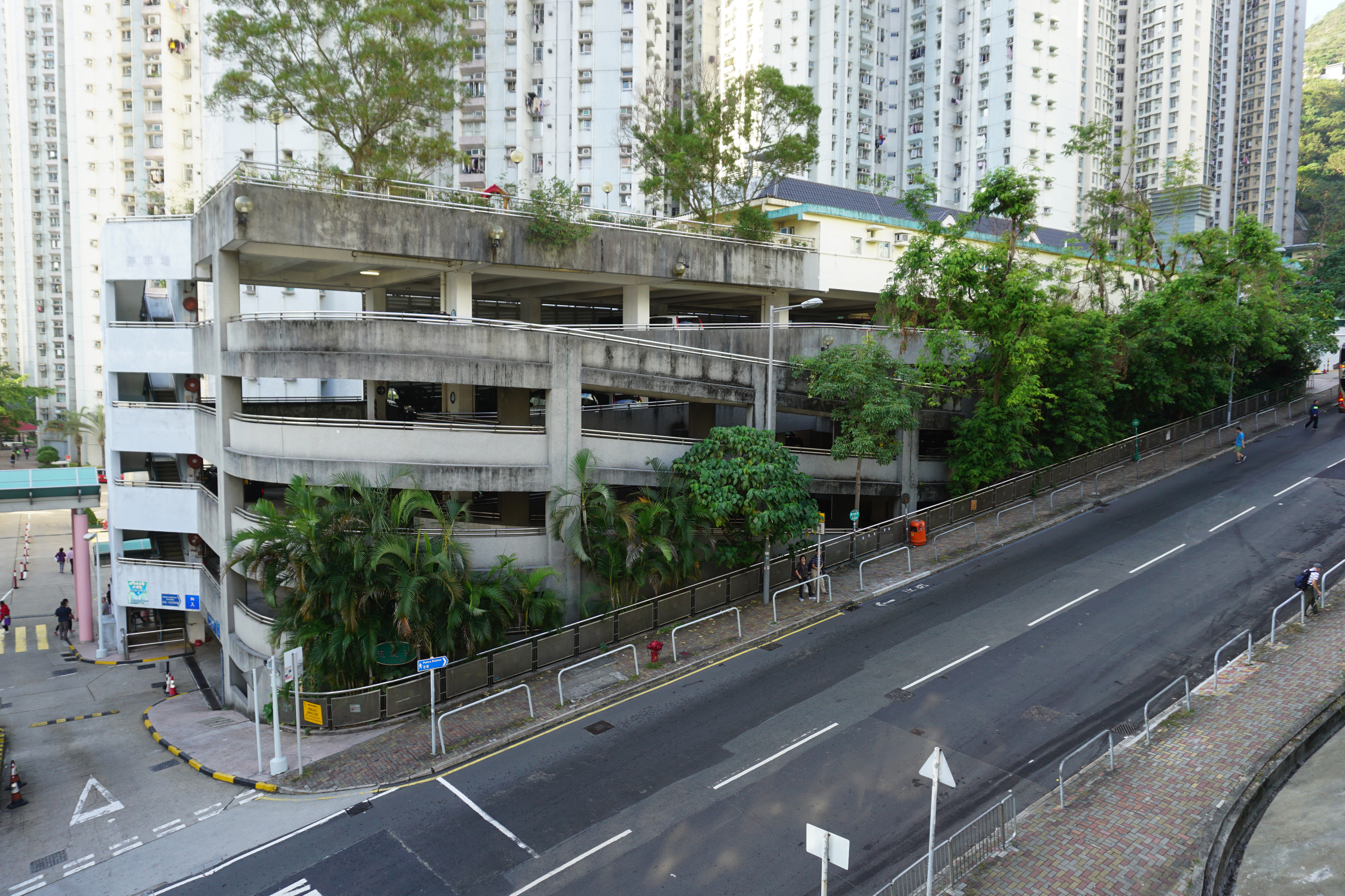 Tsz Oi Court in Tsz Wan Shan, Hong Kong.